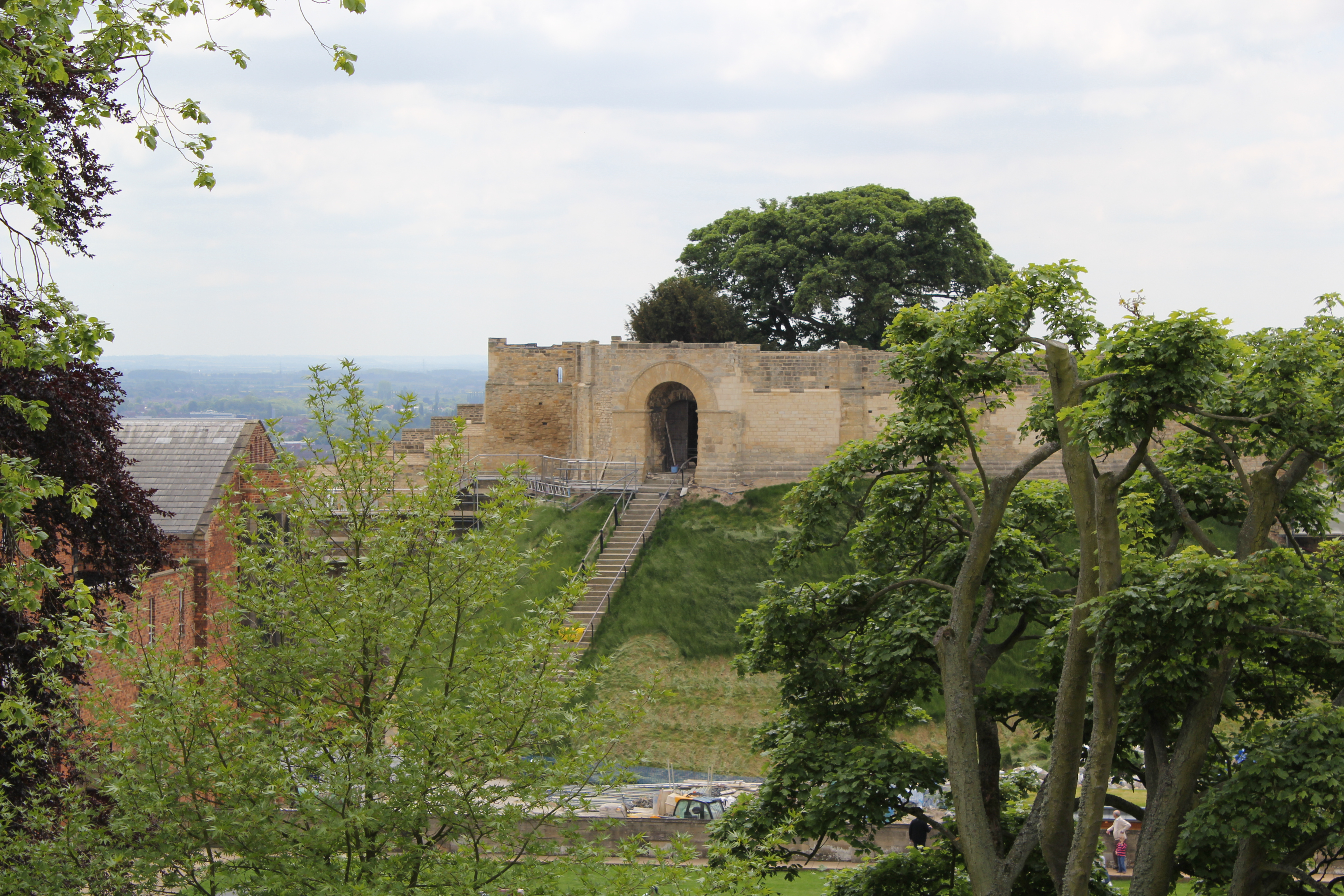 The 12th-century Lucy Tower at Lincoln Castle